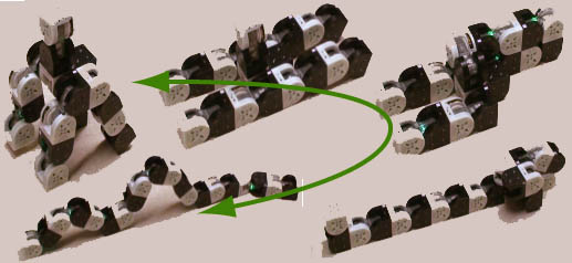 Metamorphosis by a self-reconfigurable robot, M-TRAN III at AIST (made by H. Kurokawa)